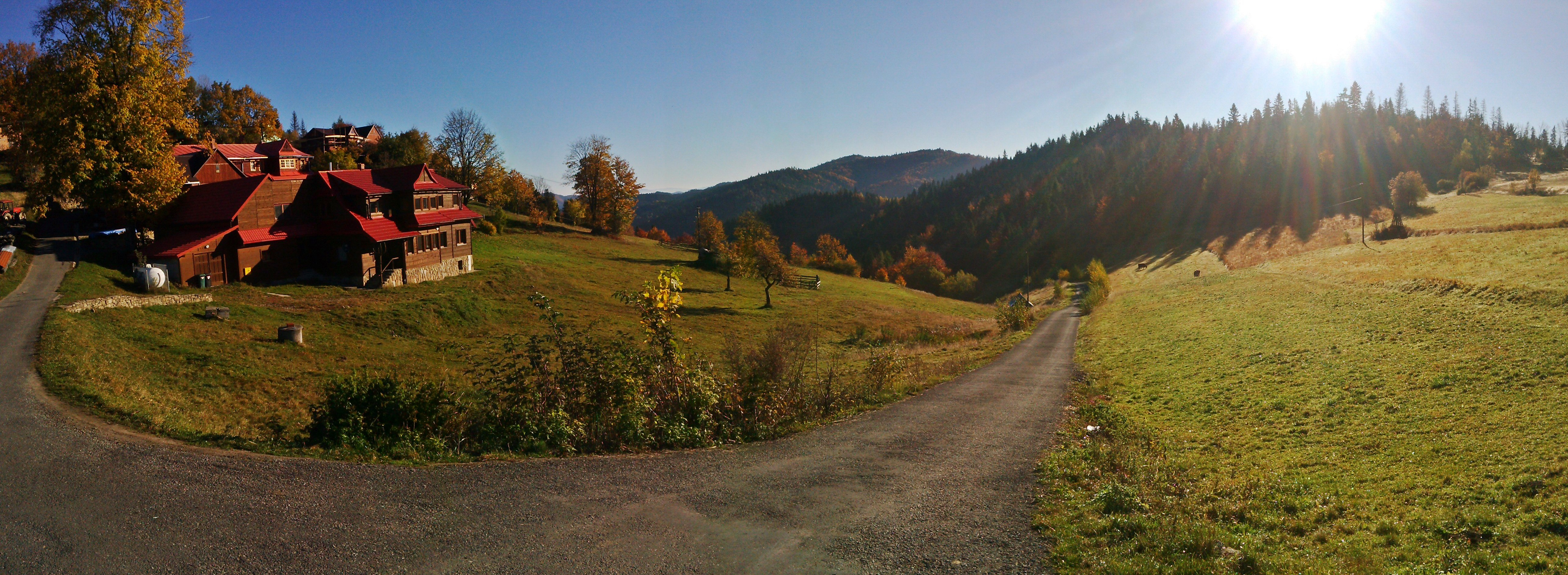 Panorama of hamlet Studzionki in Gorce Mountains.